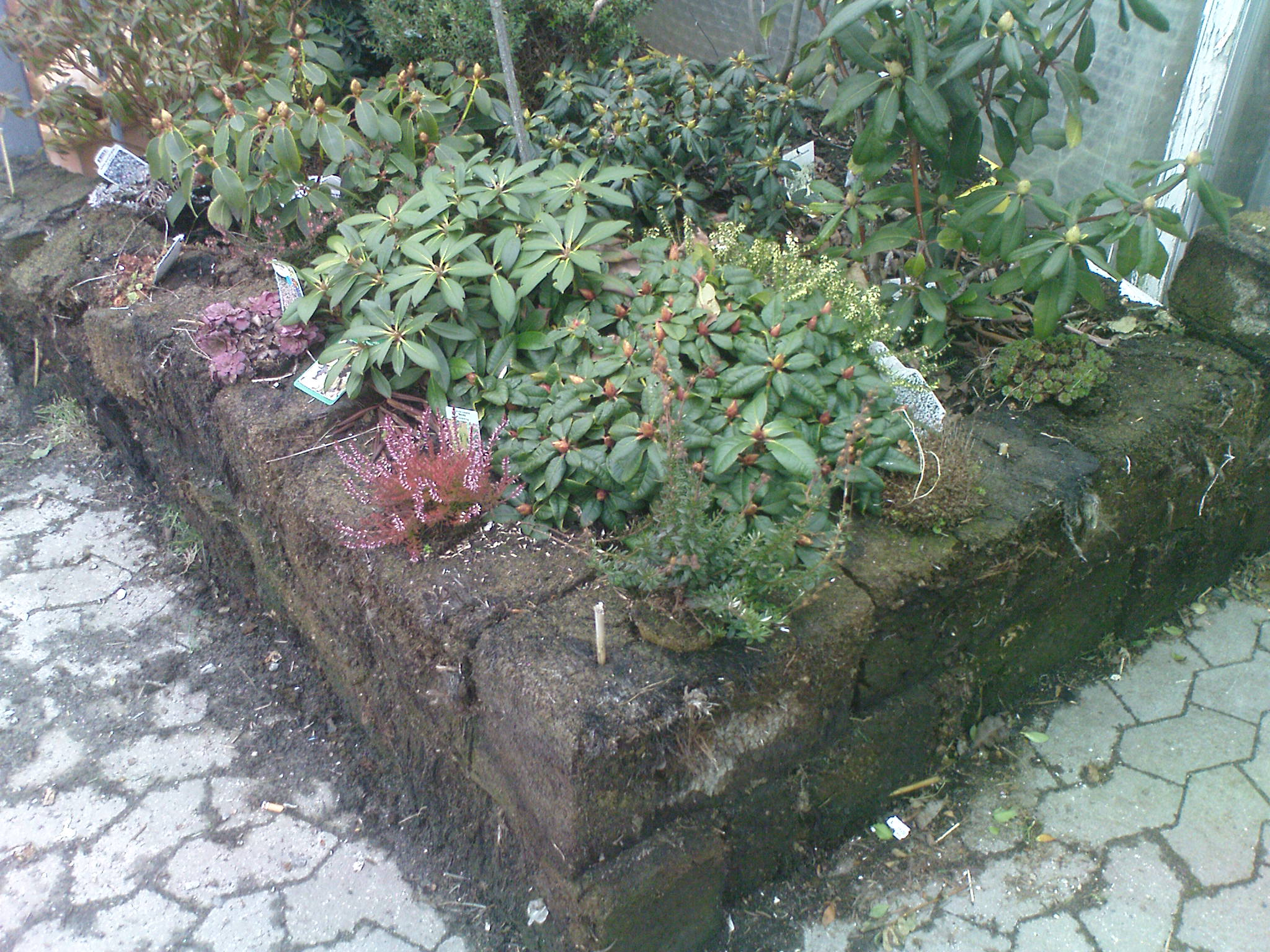 Acidic soil garden bed using peat as wall